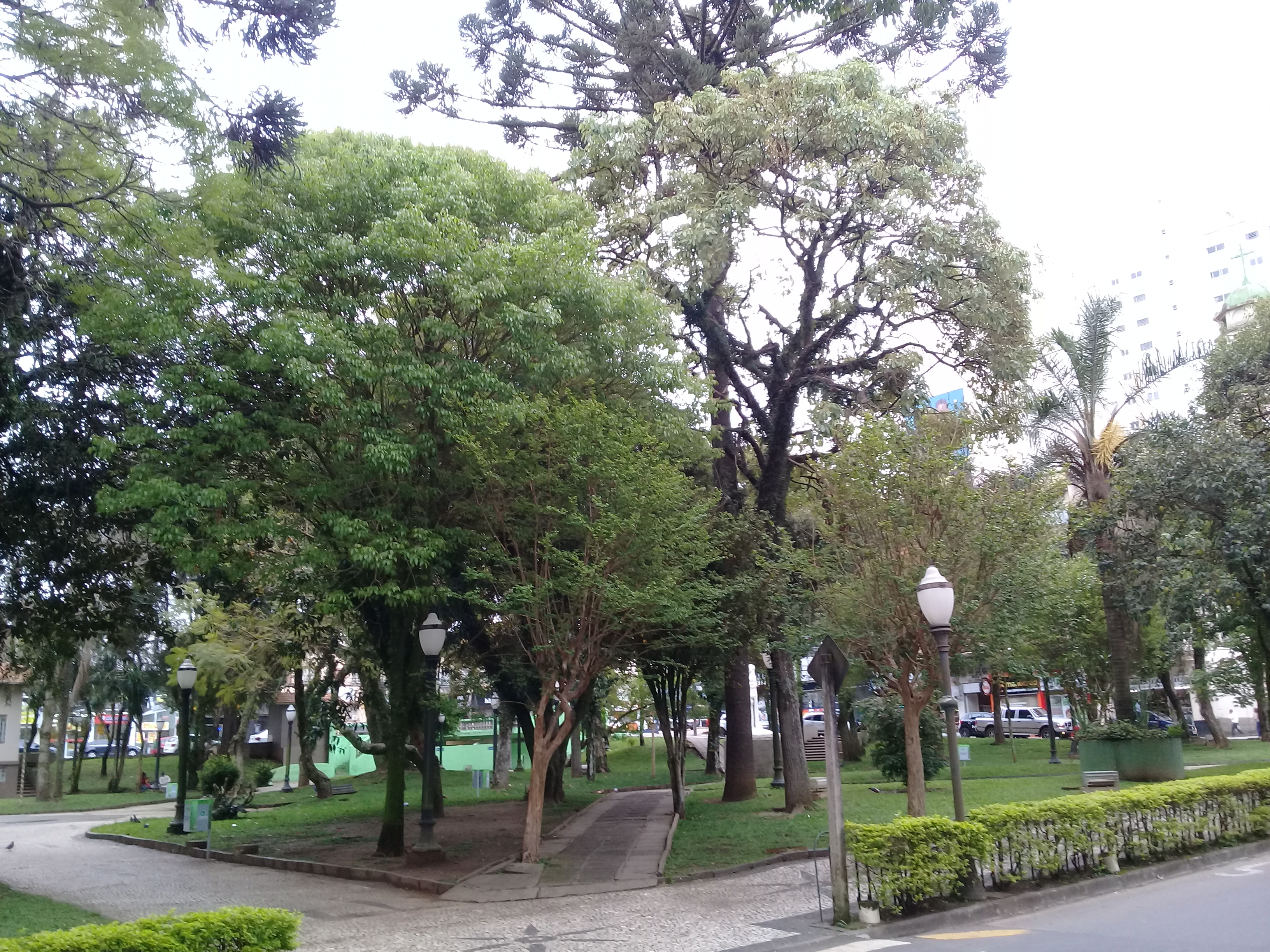 Barão do Rio Branco, central square in Ponta Grossa, southern Brazil more vegetated with remnants of Araucaria angustifolia